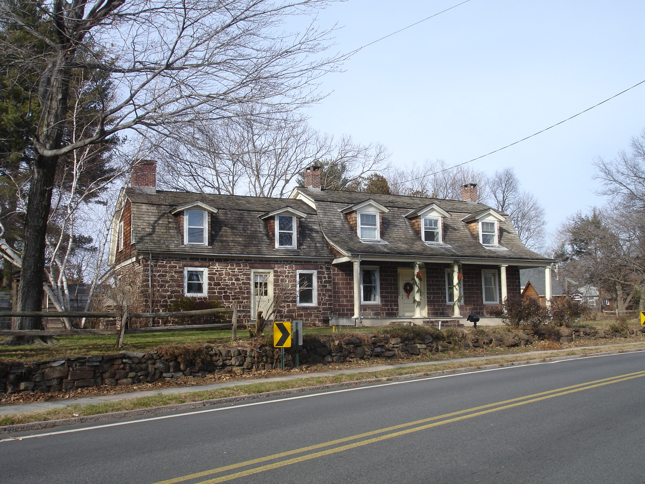 I took this photo of the Peter Garretson Farmhouse myself on December 29, 2011.